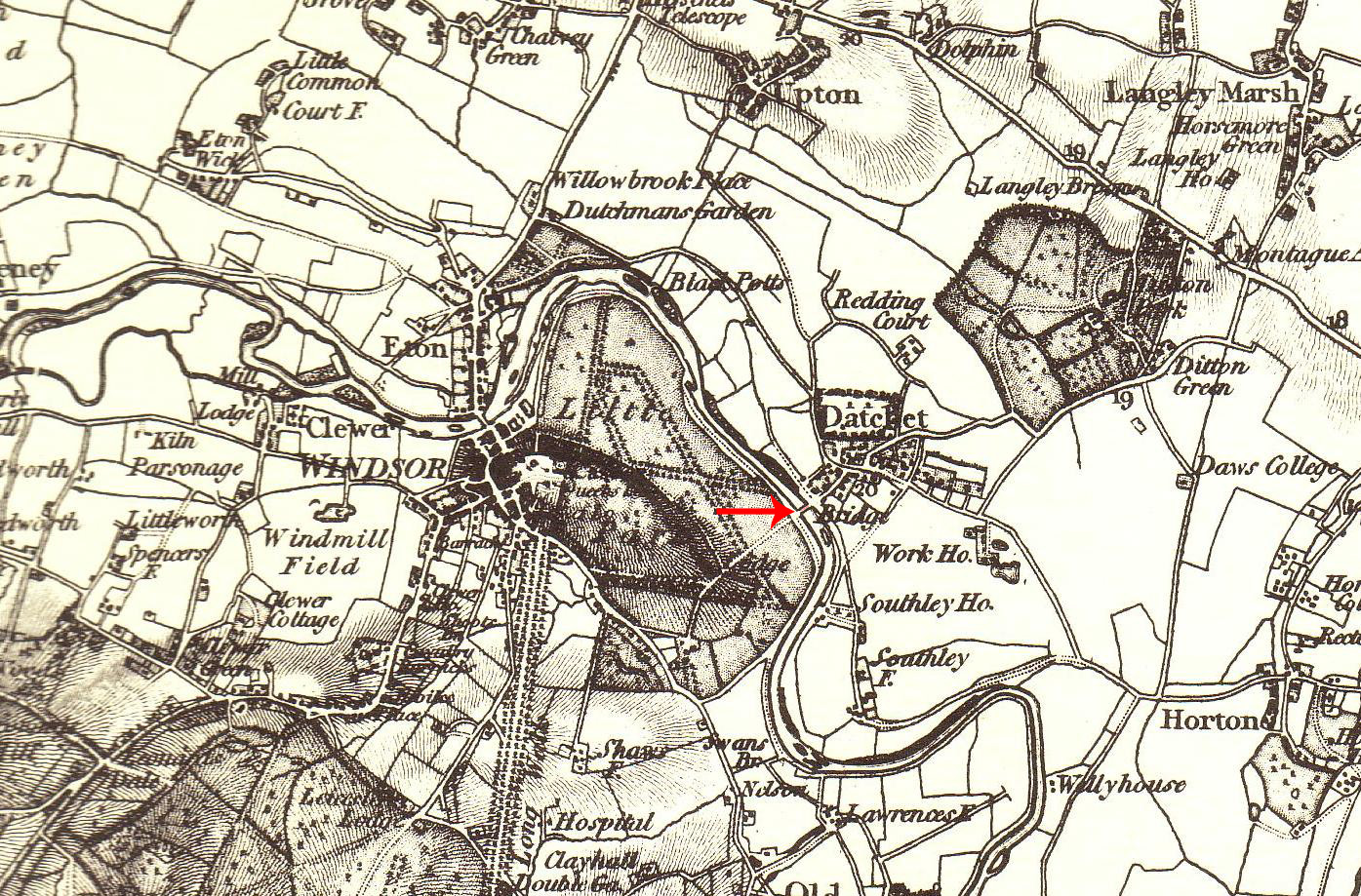 Scan of 1822 Ordnance Survey map with annotation to locate Datchet Bridge